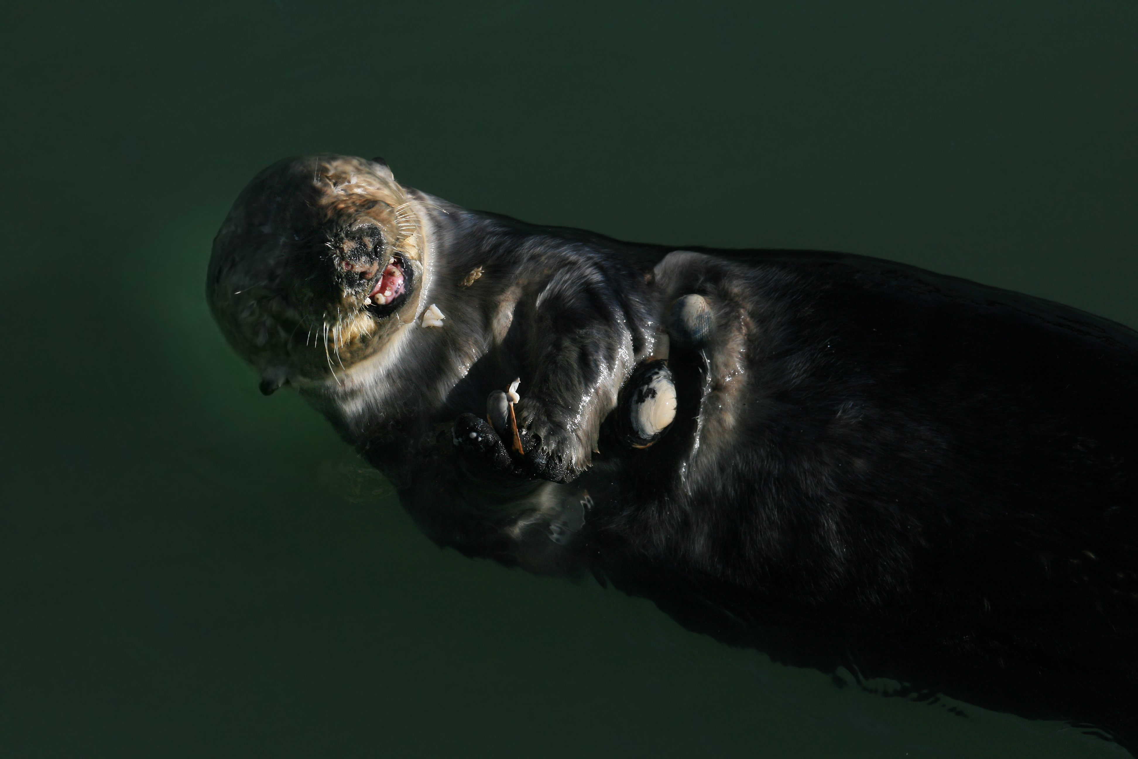 A pea crab has fallen out of the clam that this female sea otter,Enhydra lutris is eating, and has landed on the sea otter's ,Enhydra lutris neck (in Moss Landing, California)